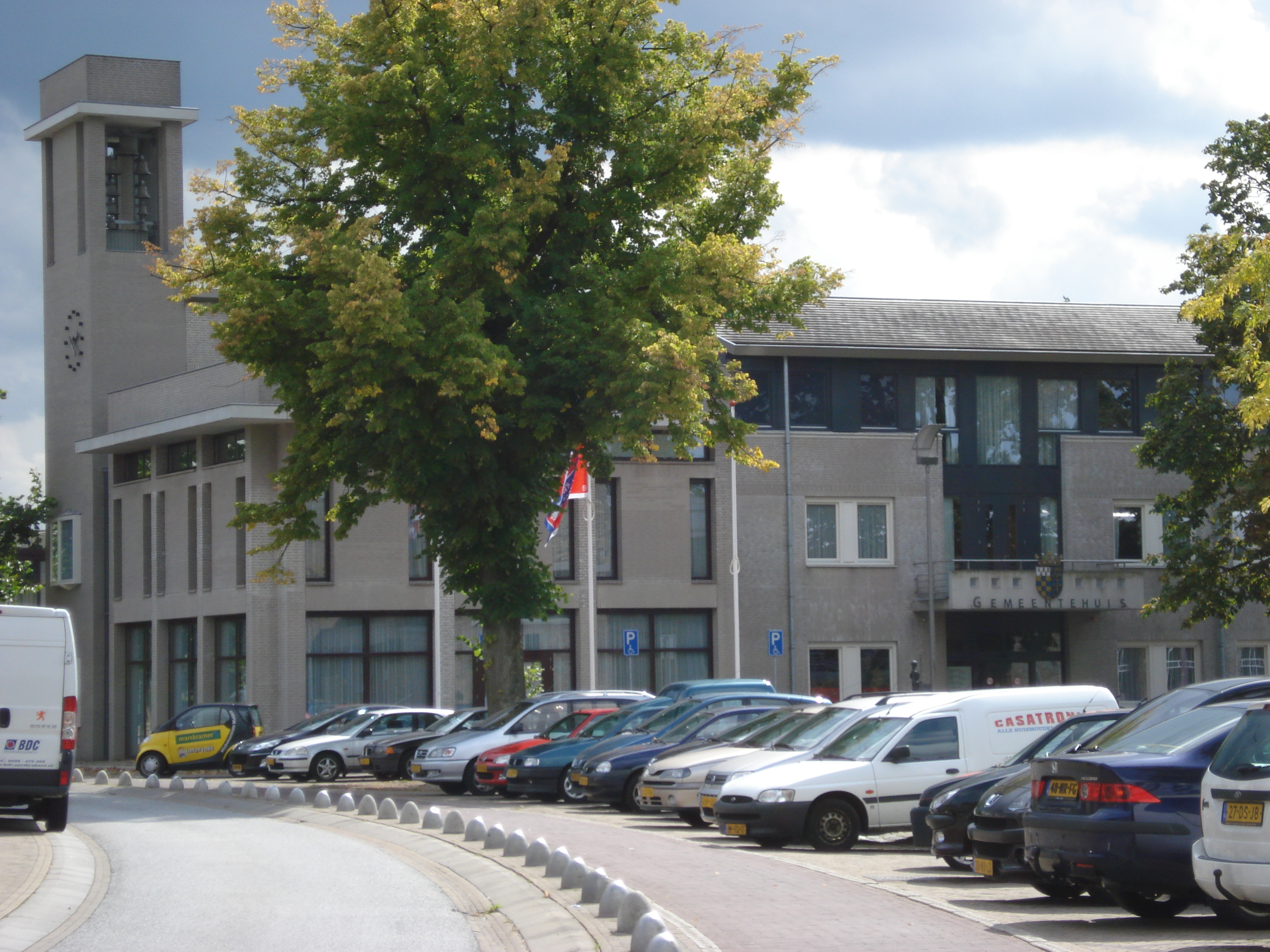 Malden (Gld, NL) town hall municipality of Heumen